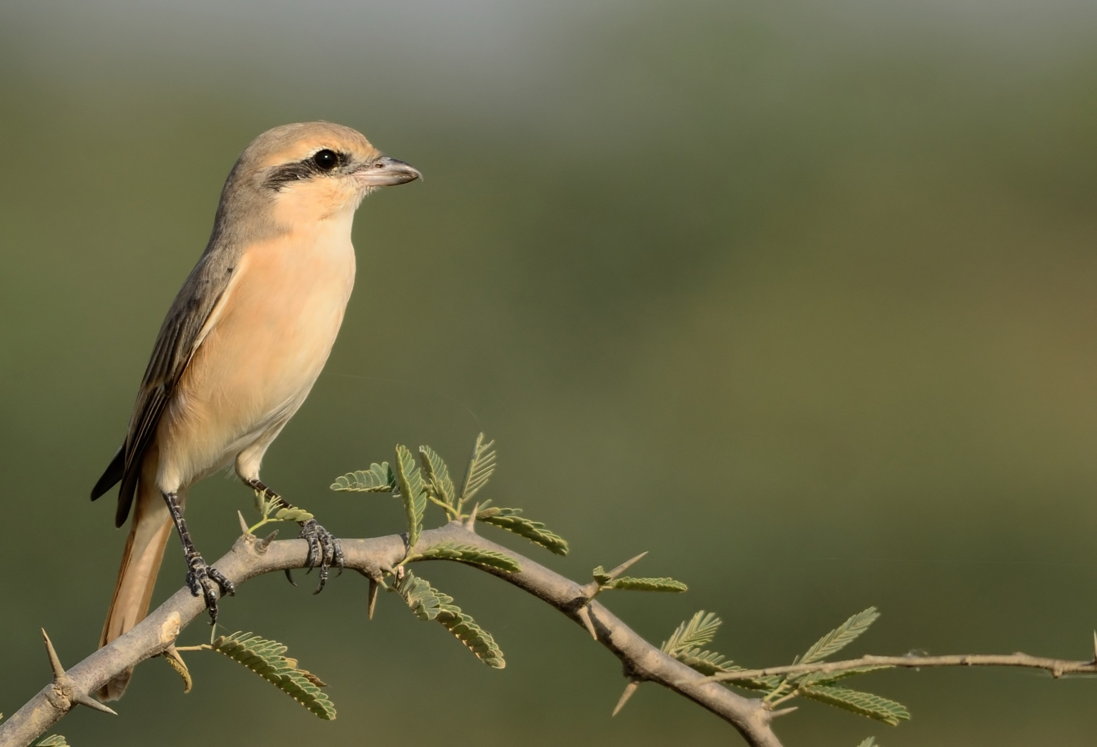 Isabelline Shrike (Lanius isabellinus) at Great Rann of Kutch, Gujarat, India.